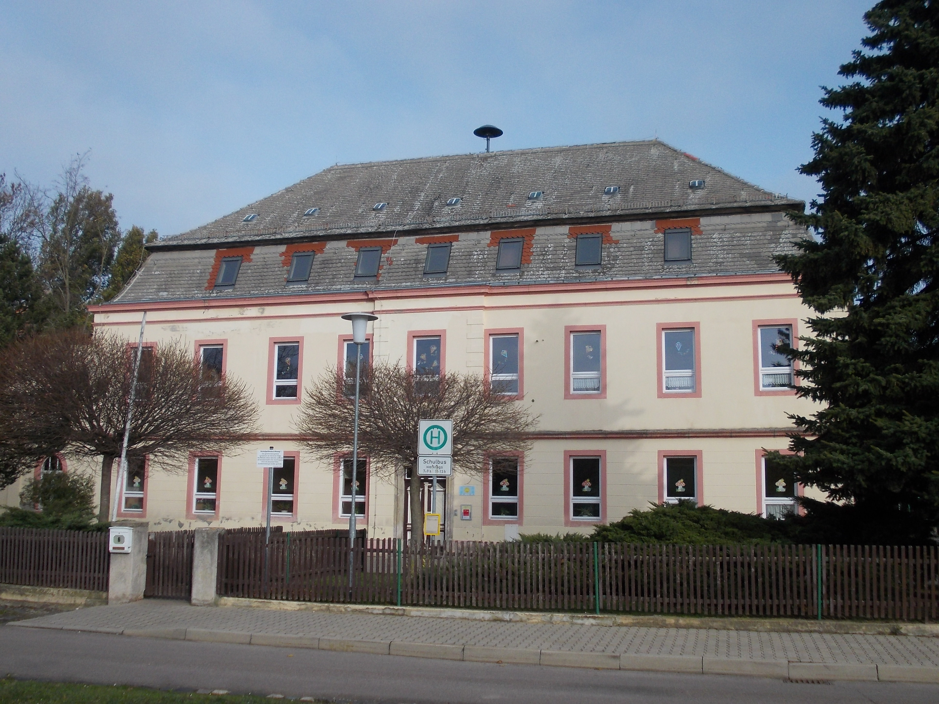 Plotha manor house (Teuchern, district: ^Burgenlandkreis, Saxony-Anhalt), today a school